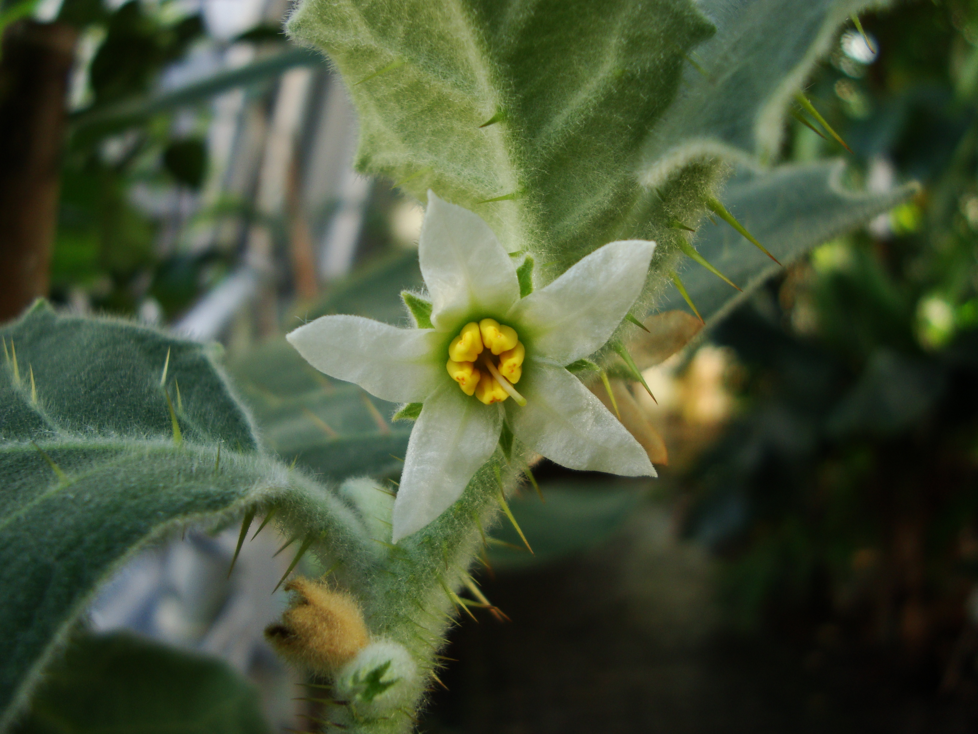 Solanum pseudolulo, flower (botanical garden, Graz Austria)